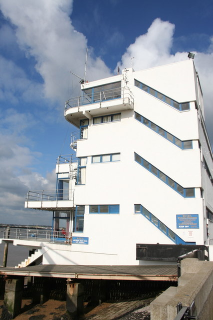 The Royal Corinthian Yacht Club They fire cannon from here to start yacht races